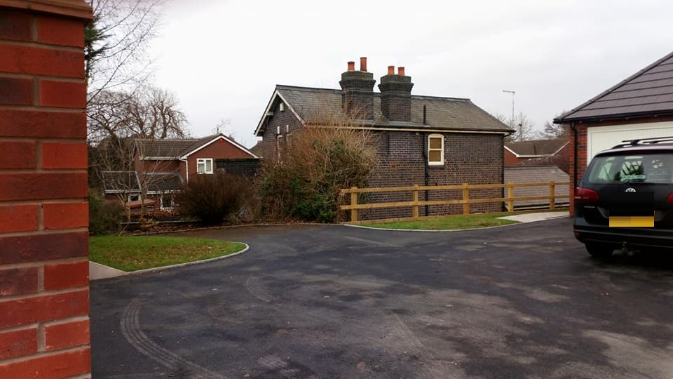 My own.